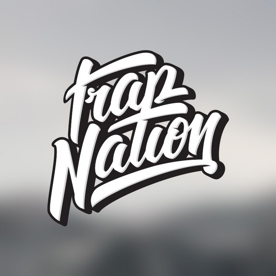 Official Trap Nation logo